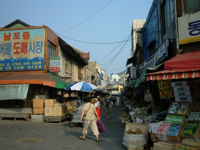 Nampo-dong(Jagalchi) groceries market, Busan, South Korea.